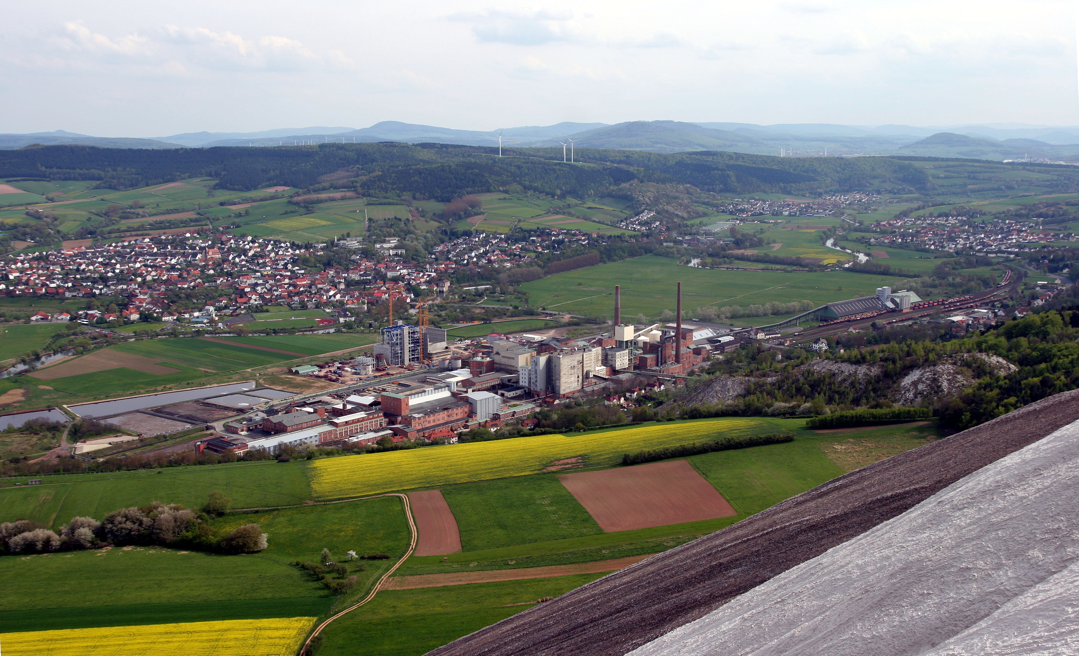 The Potassium-Plant Wintershall owned by K+S Kali GmbH in Heringen (Werra, Germany). The worlds largest potassium-plant. Picture made from the Monte Kali. In the Background the city of Heringen